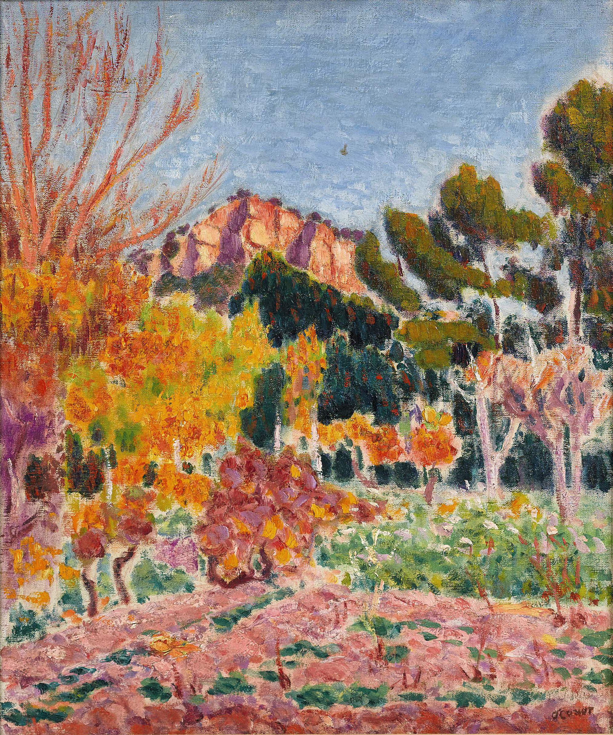 Paysage, Cassis